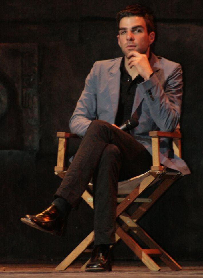 Zachary Quinto - Jules Verne Adventures Film Festival - 2007